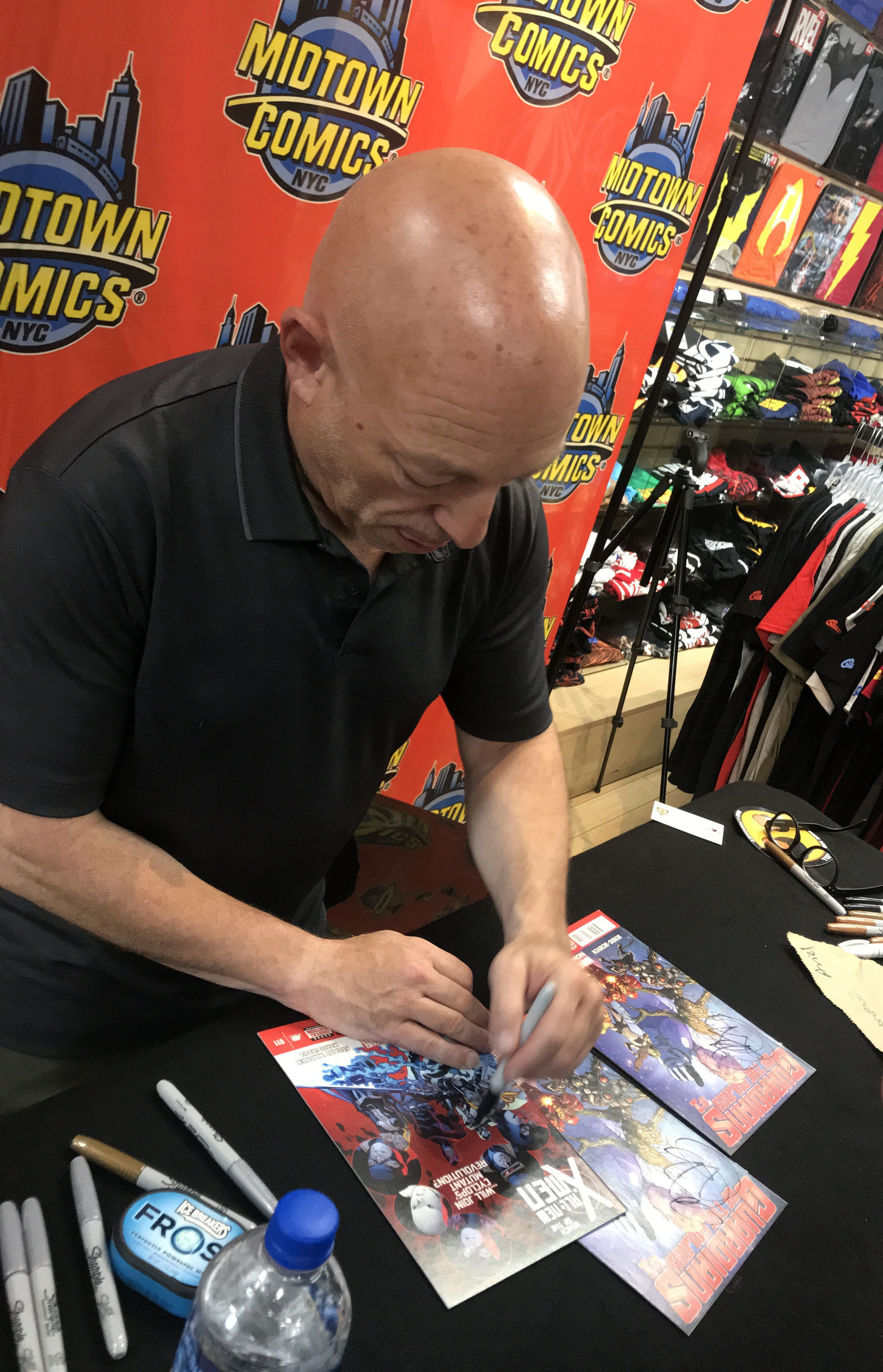 Comics writer Brian Michael Bendis at a July 24, 2019 open book signing at Midtown Comics Downtown in Lower Manhattan. In the photo, Bendis is signing copies of Guardians of the Galaxy (Vol 3) #1 (May 2013) and All-New X-Men #11 (July 2013). This photo was created by Luigi Novi. It is not in the public domain, and use of this file outside of the licensing terms is a copyright violation.